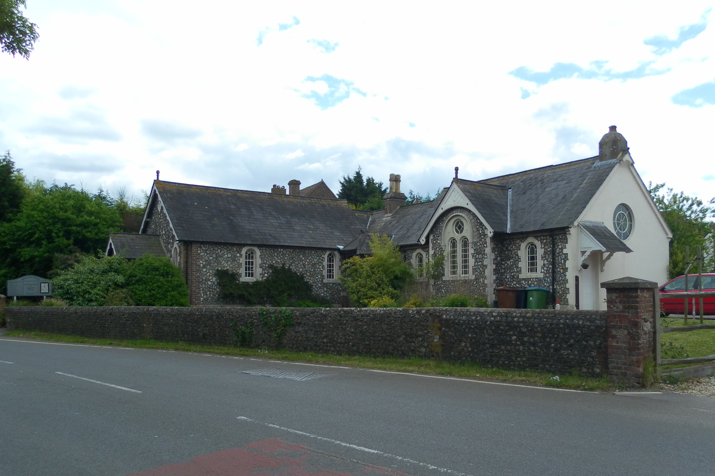 Yapton Evangelical Free Church, Main Road, Yapton, Arun District, West Sussex, England. Listed at Grade II by English Heritage (NHLE Code 1237819)